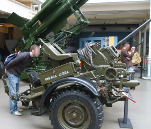 An Argentine Rheinmetall 20 mm Twin Anti-Aircraft Cannon in the Imperial War Museum, donated by the British Army after the Falklands War. An approx 6ft adult male nearby acts as a reference for scale.